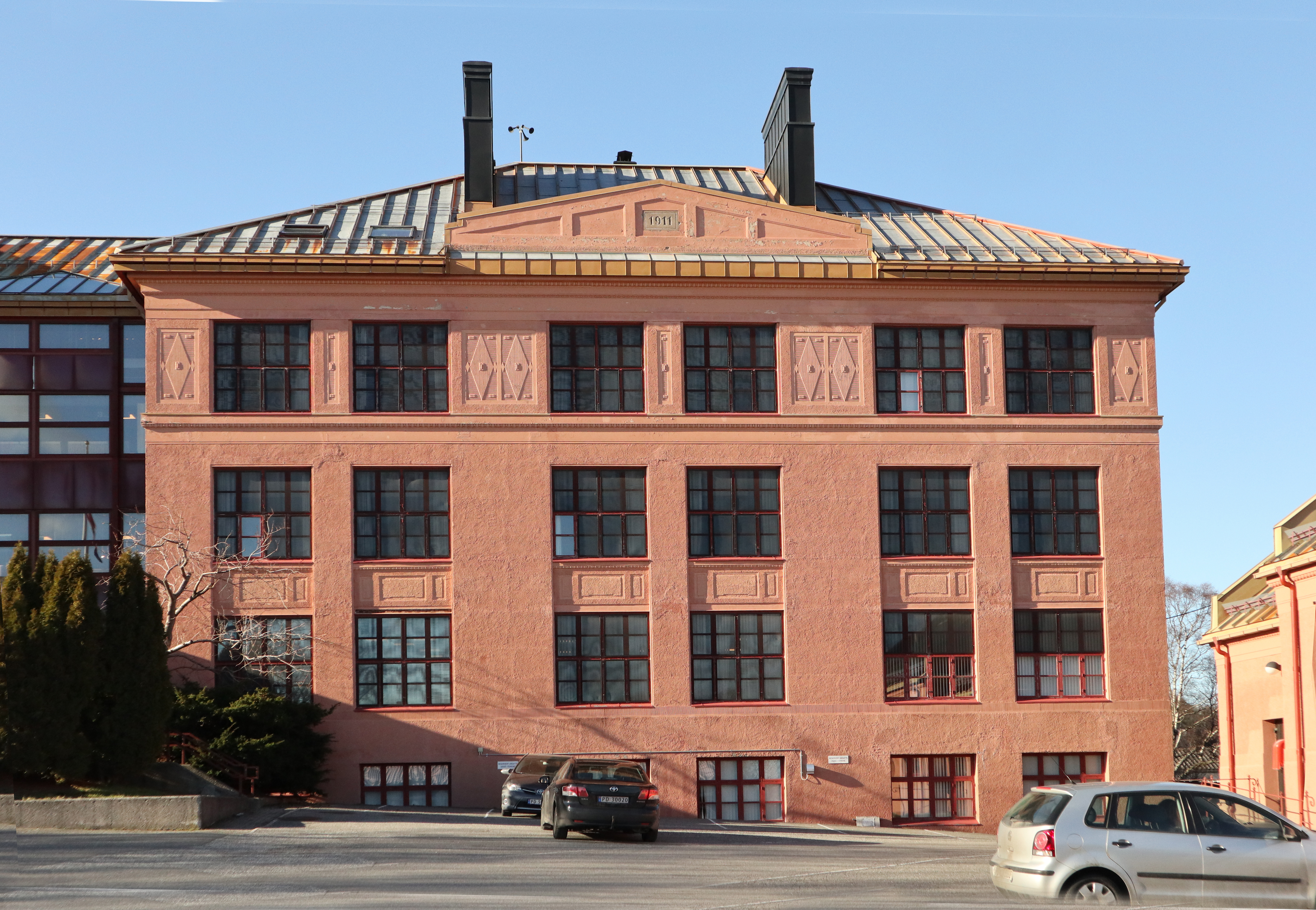 School in Barbu, Arendal